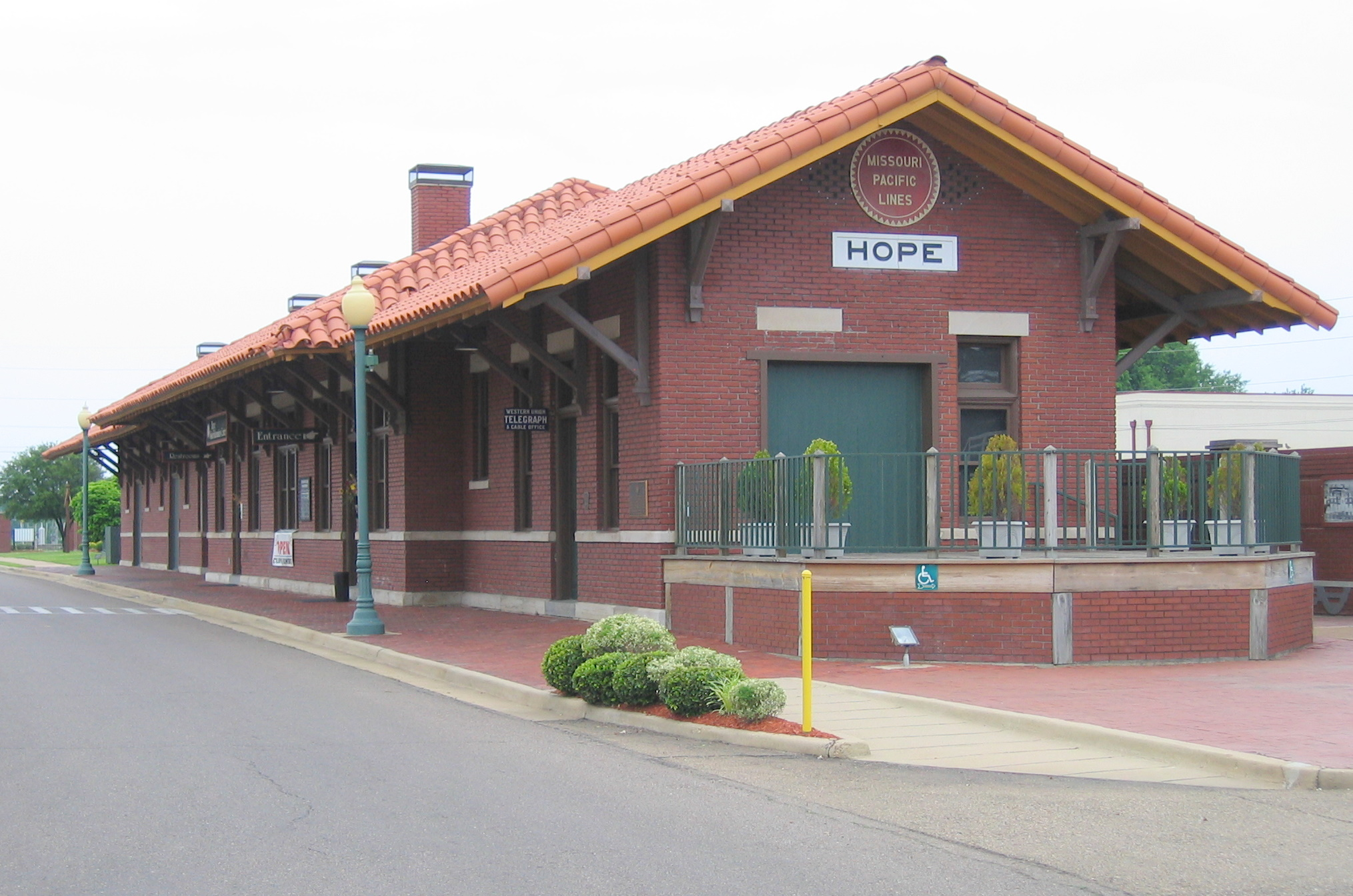 Built by Missouri Pacific in 1917. Now a Bill Clinton museum in the town where he was born. Amtrak began service in 2013.